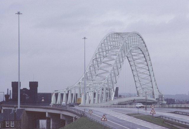 Runcorn Road Bridge This telephoto shot emphasises the arch design of the bridge. The rail bridge is on the left.